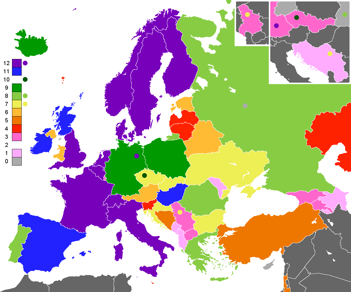 UEFA Women's Championship – Number of appearances inclusive qualification